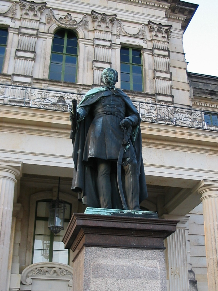 statue of Friedrich Franz I. in front of Ludwigslust's Castle